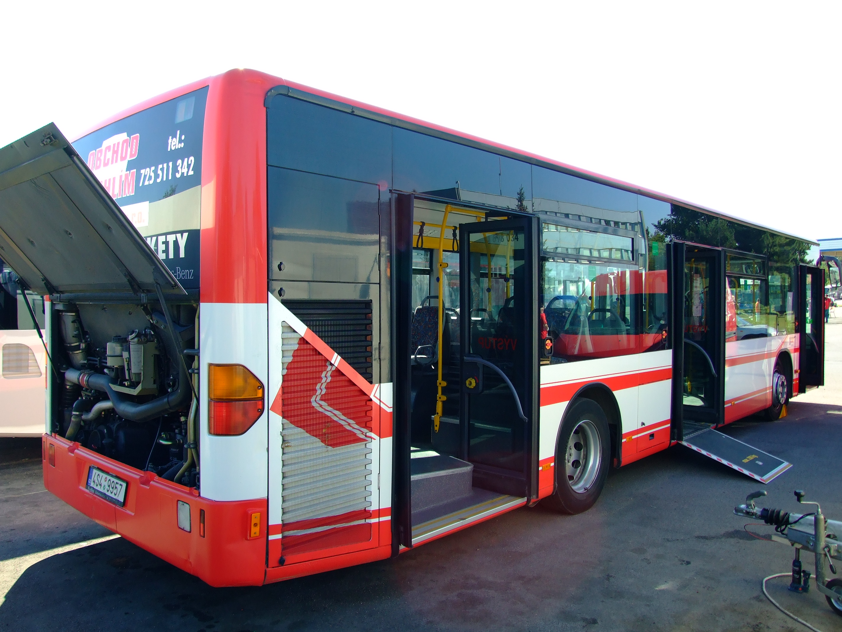 ČSAD Mělník/ČSAD Střední Čechy bus exhibition in Mělník bus garages, Central Bohemian Region, CZ